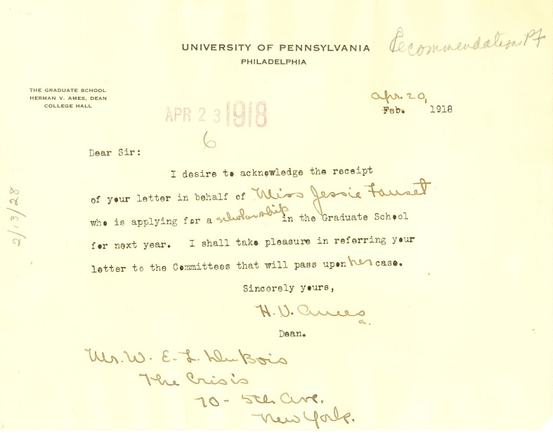 A 1918 note from Herman Ames to W. E. B. Du Bois concerning a recommendation for an incoming student at the University of Pennsylvania